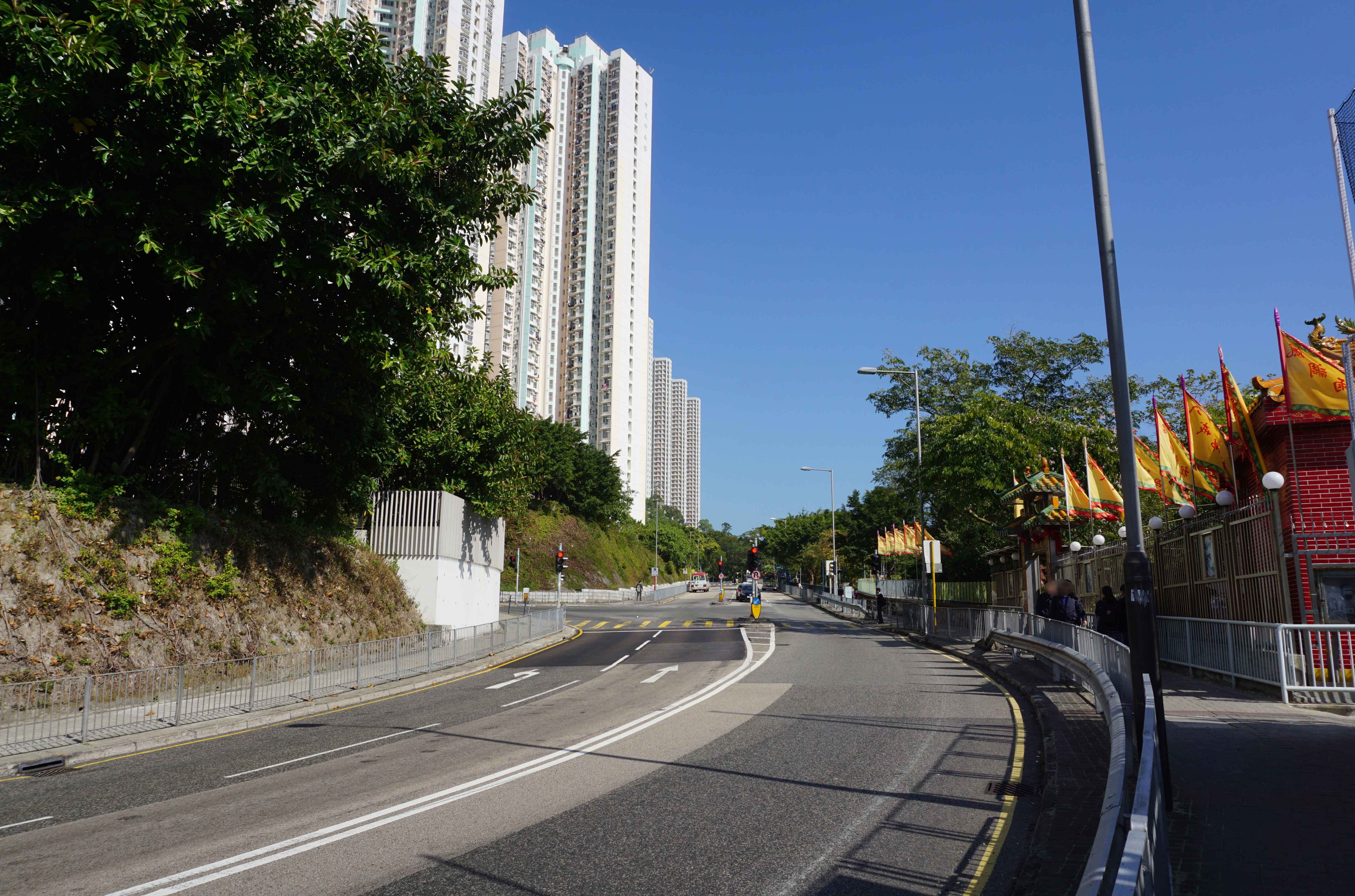 Hiu Kwong Street in Sau Mau Ping, Hong Kong.